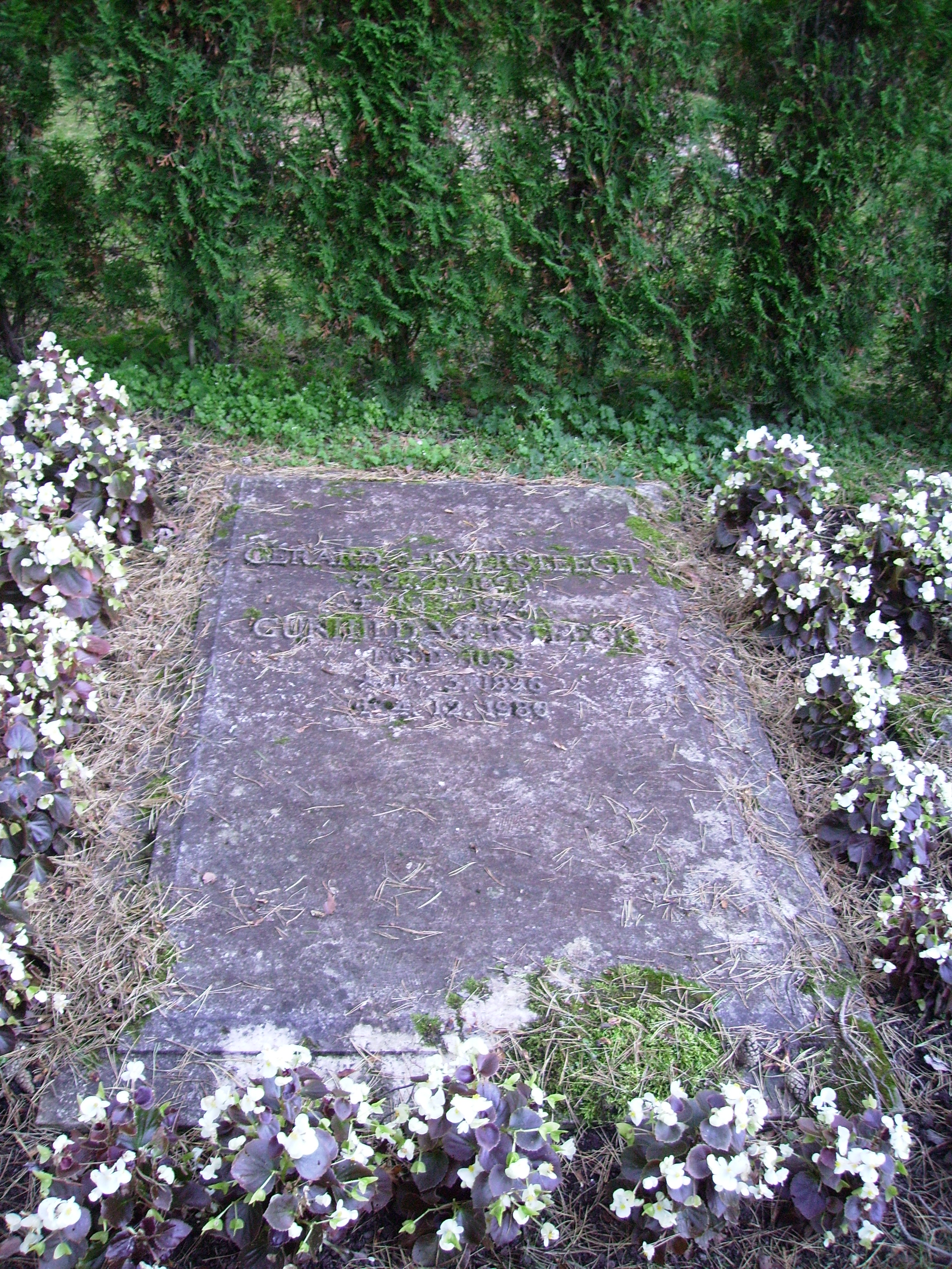 Picture of Gérard Versteegh's grave at Norra begravningsplatsen in Solna